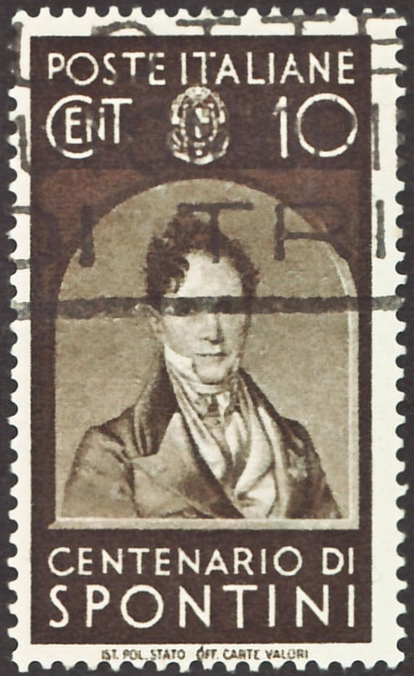 Stamp of the Kingdom of Italy; 1937; commemorative stamp of the issue "Famous Italian people"; drawing of Gaspare Spontini in half-oval; postmarked Stamp: Michel: No. 591; Yvert & Tellier: No. 406; Scott: No. 387 Color: sepia to brown Watermark: Italy No. 1 (crown) Nominal value: 10 Cent. (Centesimi) Postage validity: from 25 October 1937 until 30 September 1938 Stamp picture size (printed area without below names line): 20.5 x 37,9 mm